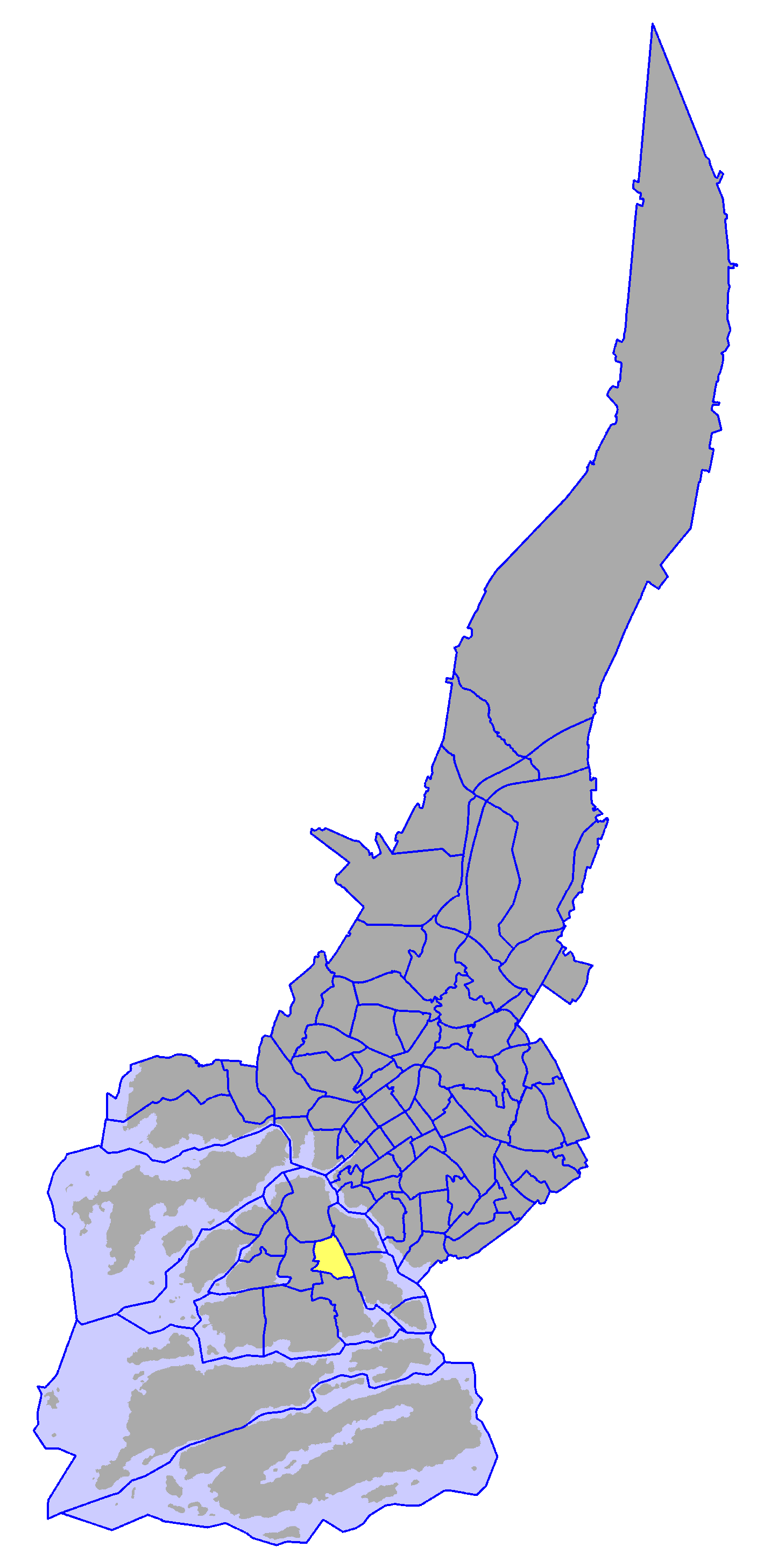 District of Kukola, in Turku